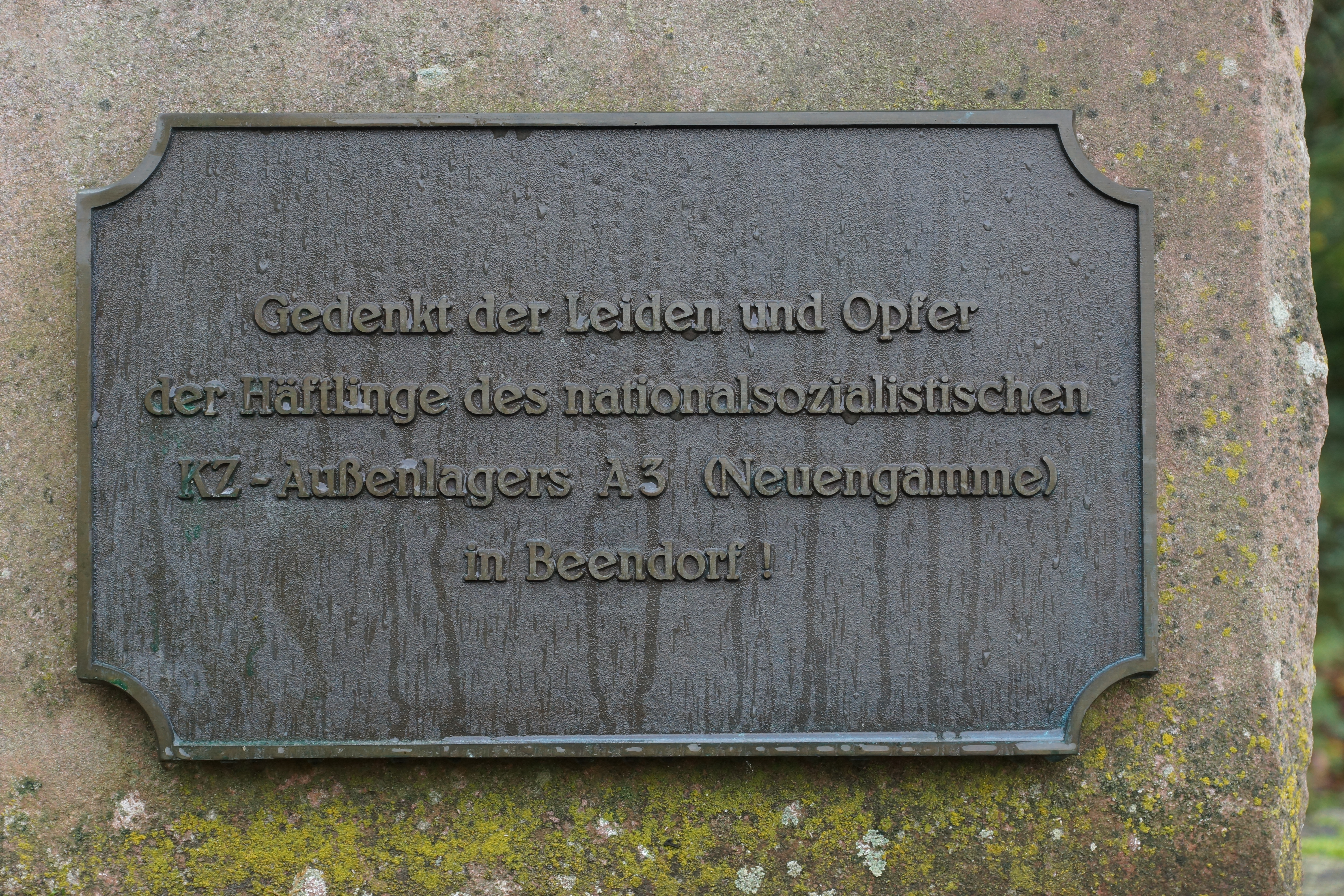 Beendorf, Germany: Monument for the victims of fascism, plaque